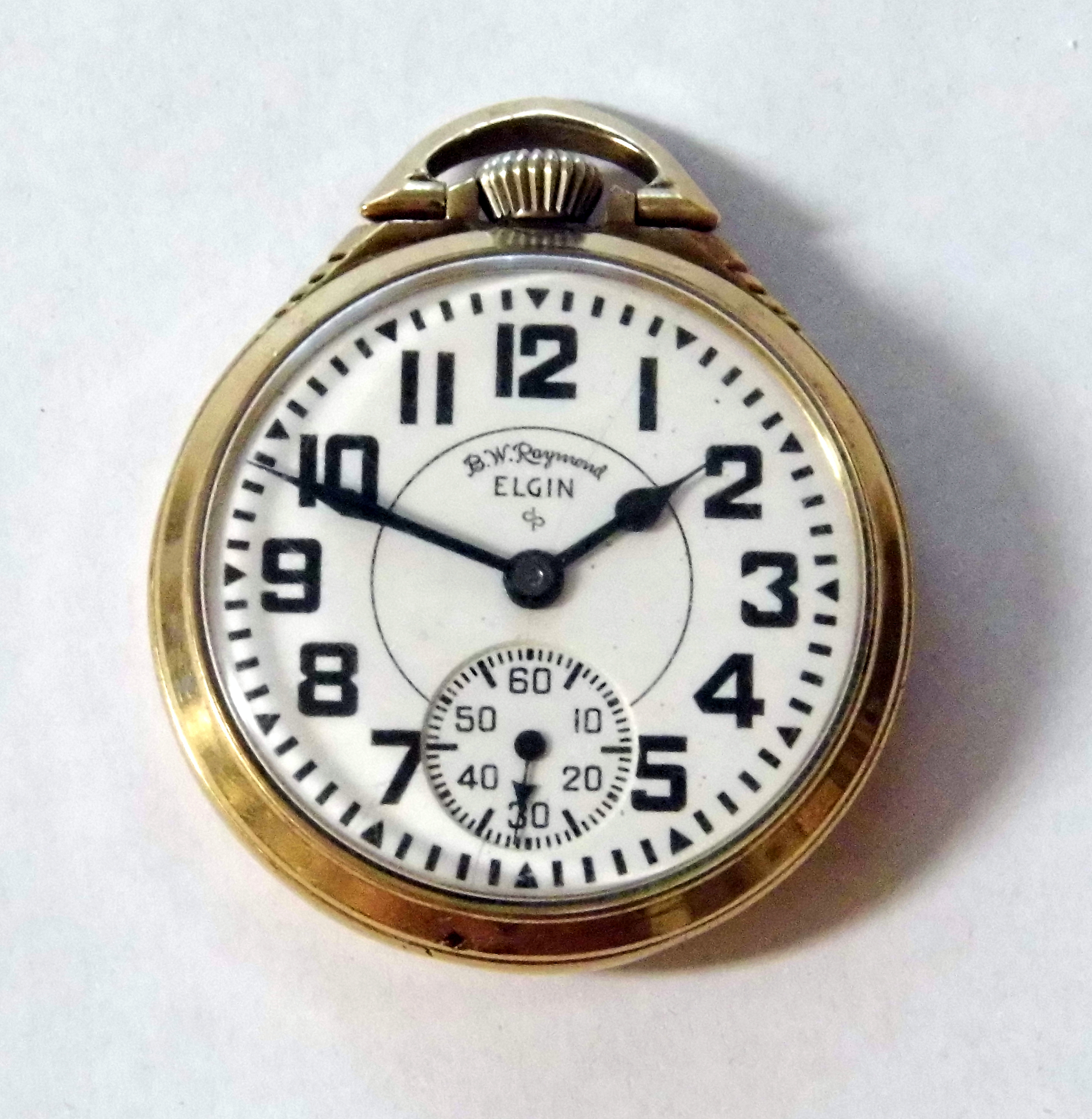 Vintage Elgin Railroad Pocket Watch, 10 K Gold Filled Case, 21 Jewels, 8 Adjustments